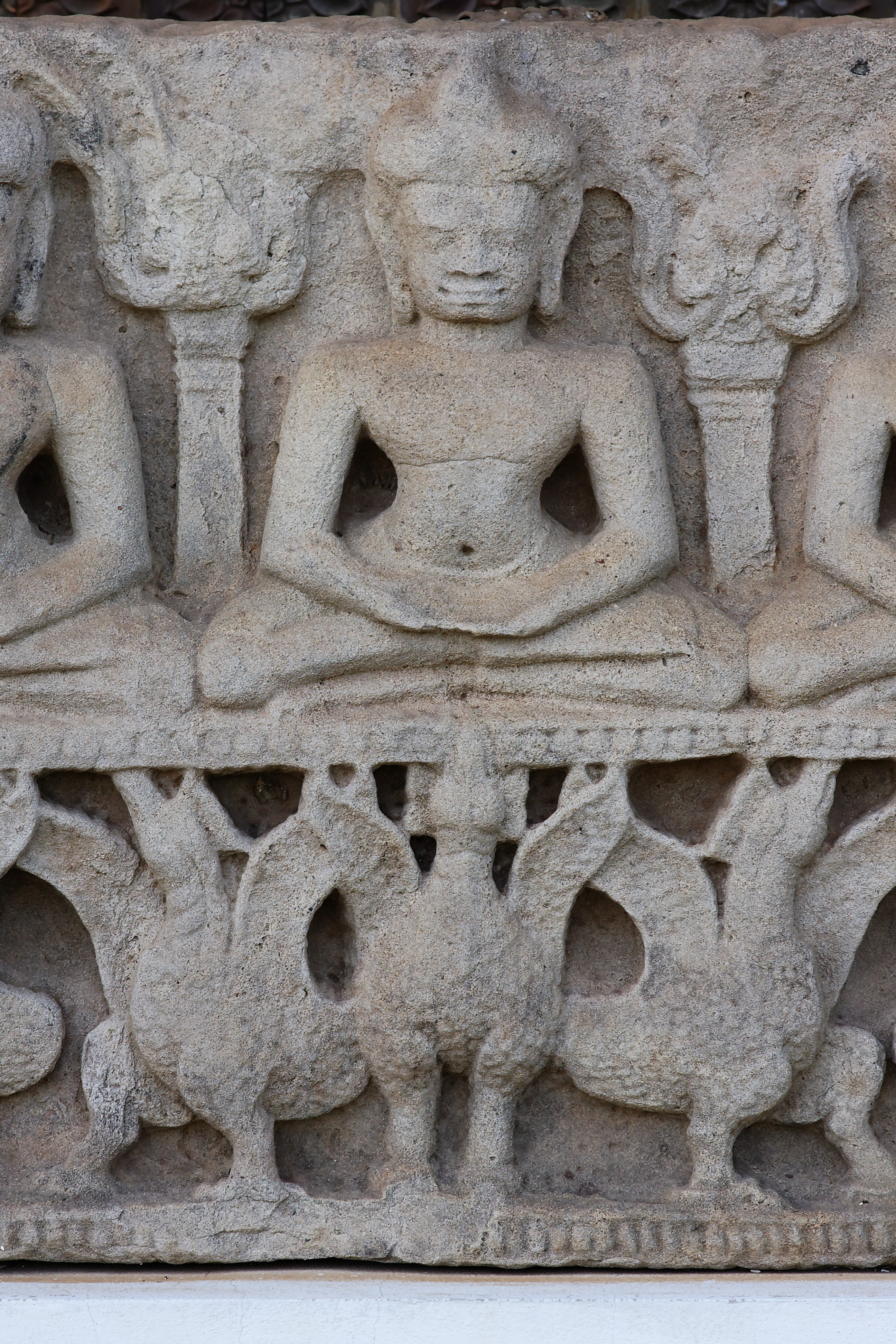 Phimai National Museum, Phimai, Thailand: detail of a khmer lintel found at Prasat Hin Phimai, Bayon style: Buddha in meditation on the hamsas